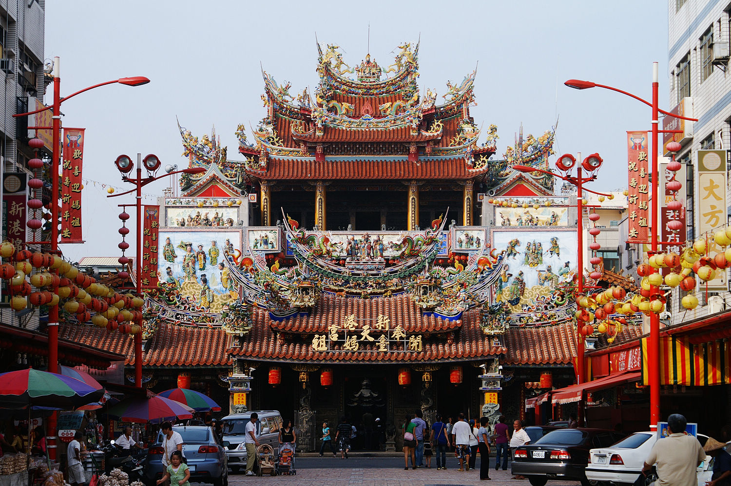 Fongtien Temple is a Mazu temple in Singang Township,it is dedicated to the deity Mazu.